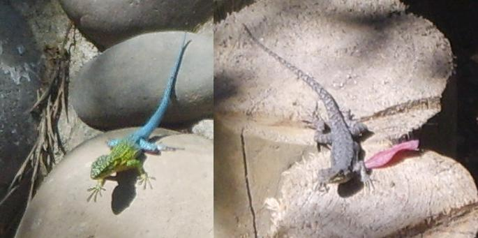 Jewel lizard (Liolaemus tenuis), a species endemic to Chile. It is also called Slender lizard and Thin lizard.